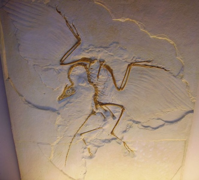 Archaeopteryx lithographica - cast of Humboldt Museum specimen